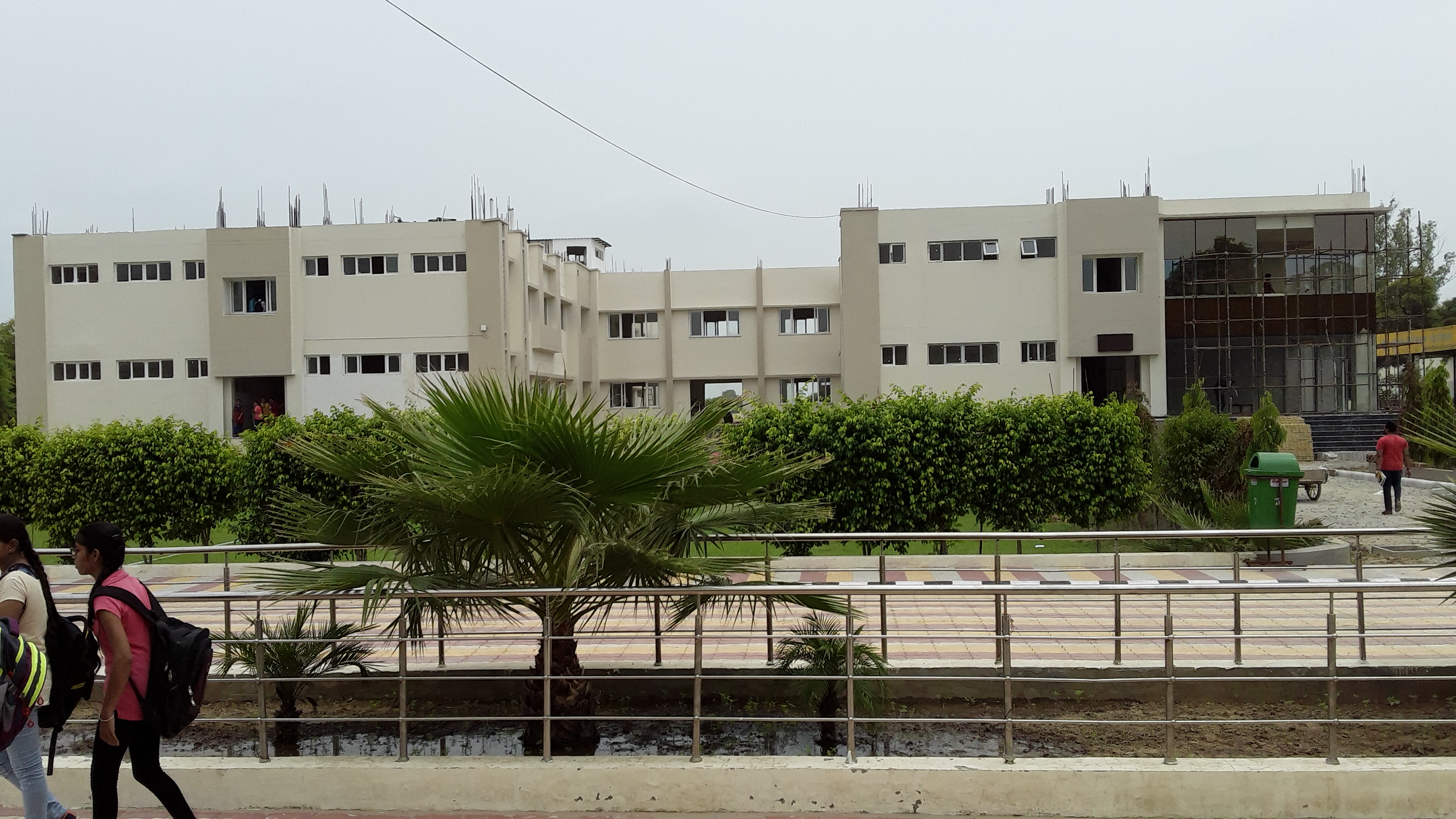 This image shows the commerce block on left side and science block on right side.